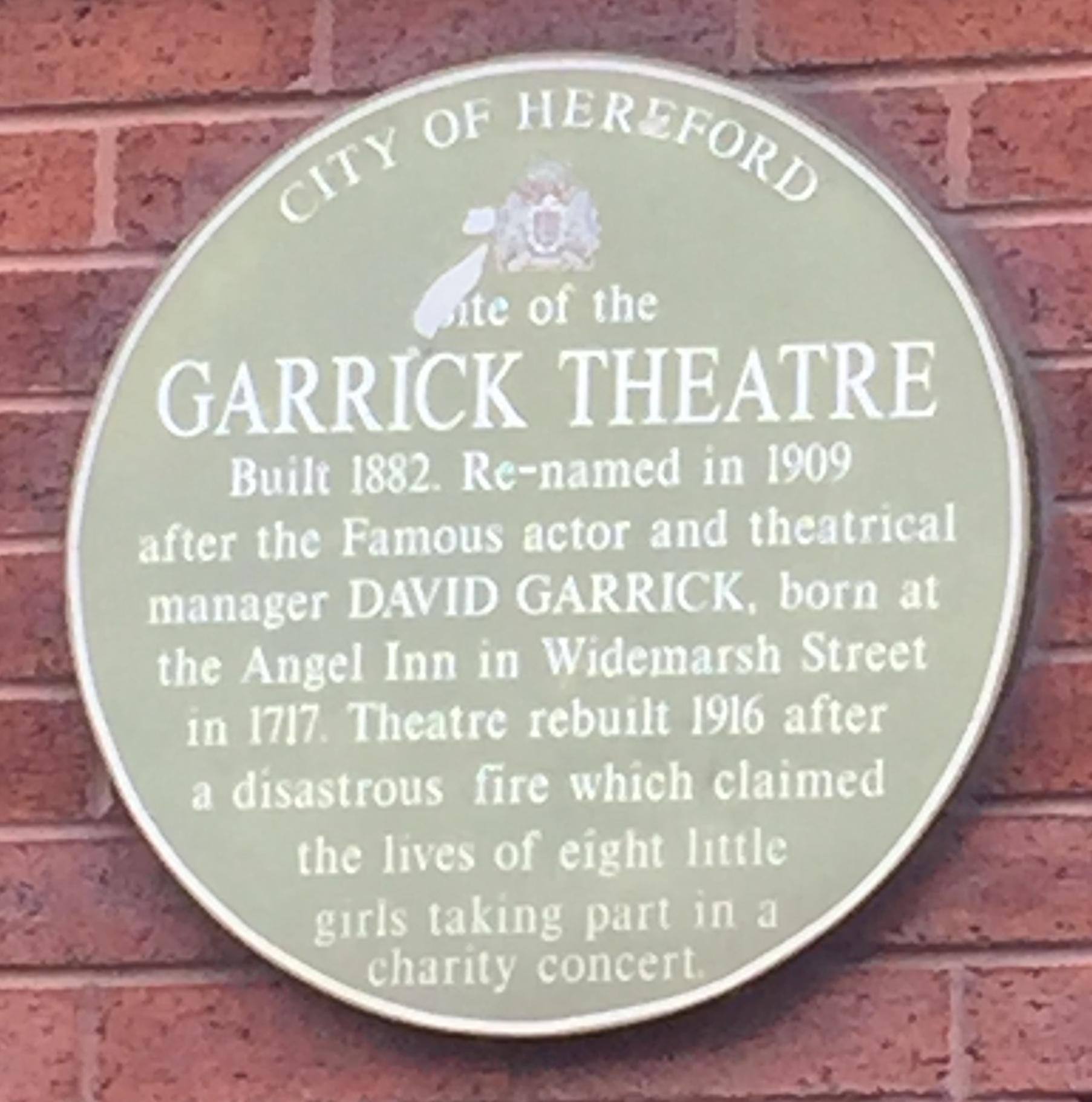 A plaque marking the site of the Garrick Theatre in Hereford, UK where a fire in 1916 killed 8 young girls